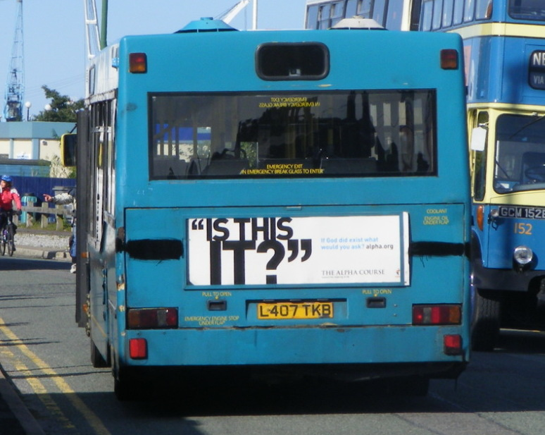 Wirral Bus and Tram Show 2008